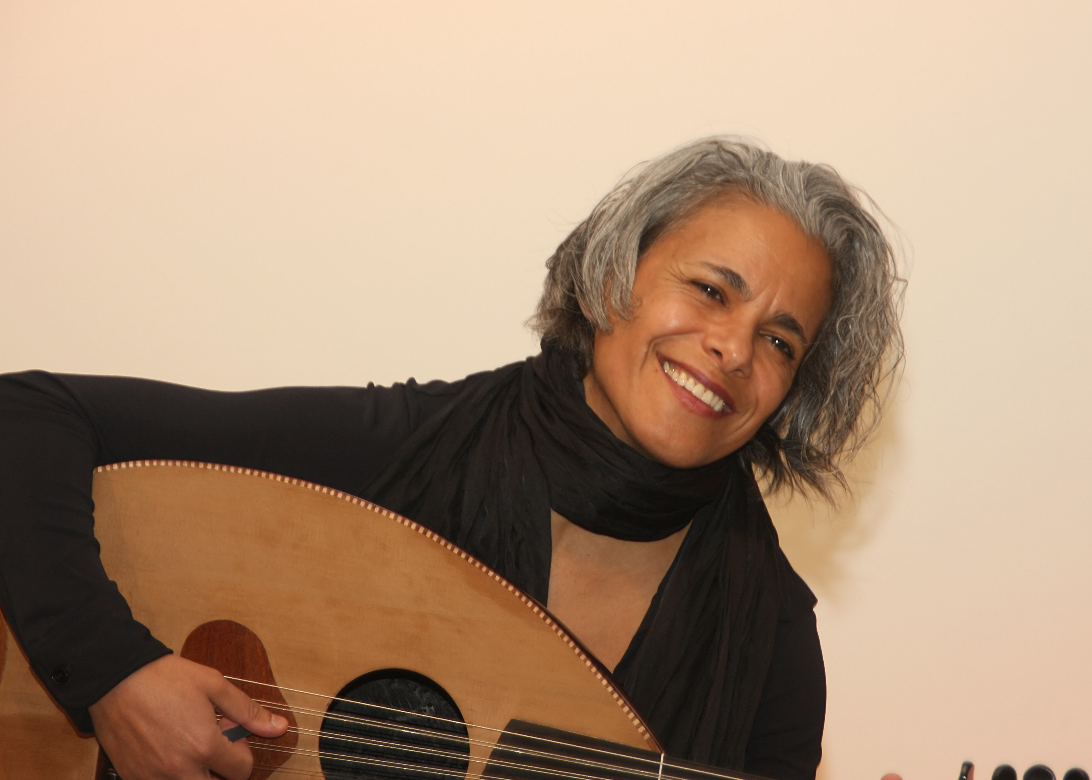 Kamilya Jubran with Oud during a concert in the Domforum, Cologne, Germany